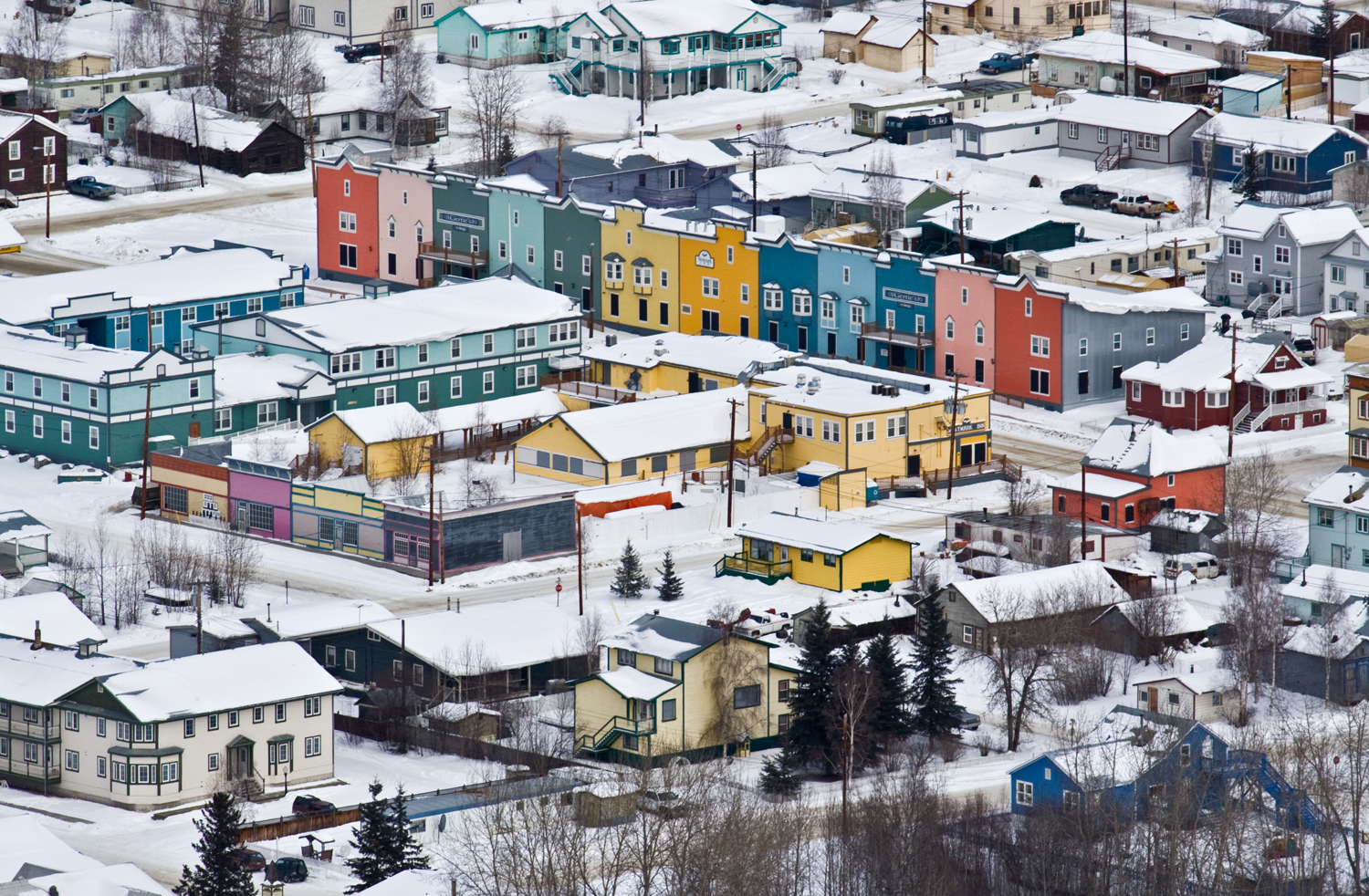 Colorful rebuilt buildings at the fifth Ave in Dawson City.